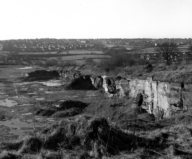 Woodhall Quarries, Fagley, Bradford This is just one part of the once-extensive, but now disused, Woodhall Quarries, photographed from the route of Paul Sheldon's excellent Bradford Ring Walk. In the distance can be seen some of the houses of the Ravenscliffe Estate.